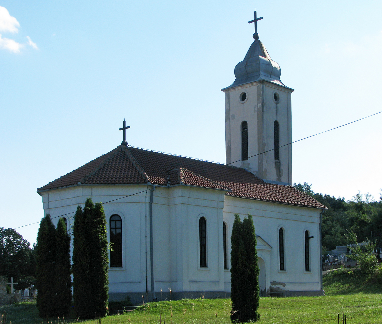 Church of Sv Trojica, Brza Palnka, Serbia